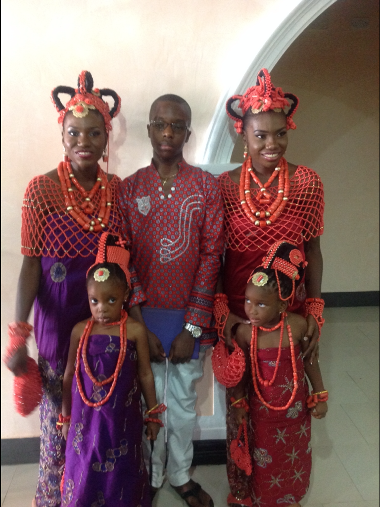 A marriage ceremony depicting one of the traditional attire of the Edo's of Nigeria. This is an image from Nigeria